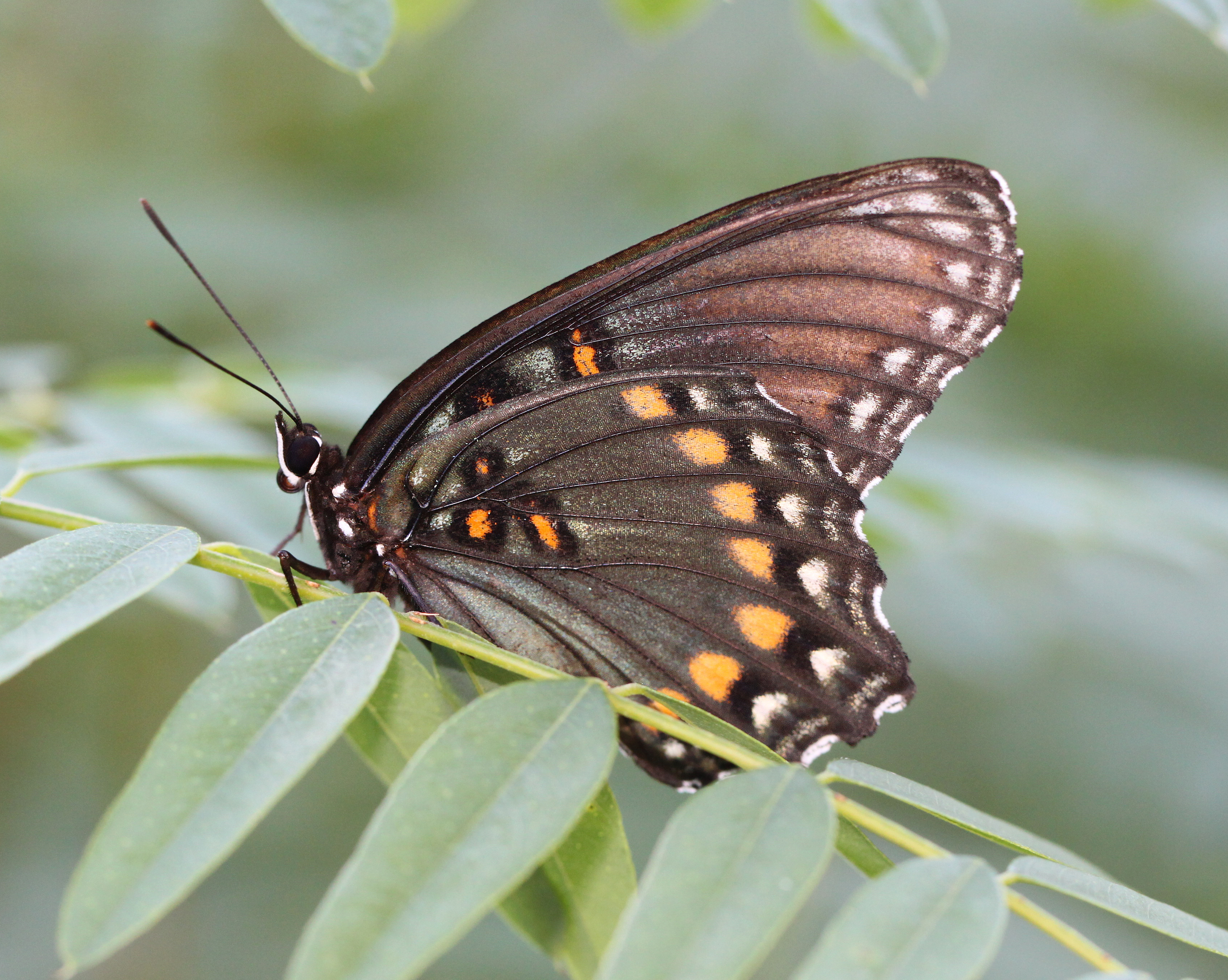 ARIZONA - BUTTERFLIES